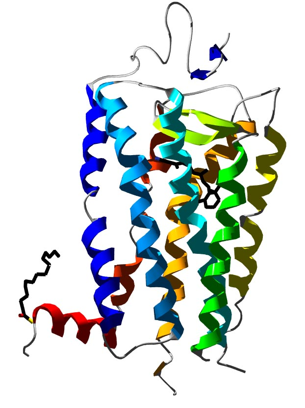 3D structure of bovine rhodopsin. Derived from the 2.6 Å crystal stucture of rhodopsin (1L9H). Structural informations were obtained from and modelled using spdbv/POV Ray. Blue: TMI. Lightblue: TMII. Cyan: TMIII. Green: TMIV. Yellow: TMVV. Organge: TMVI. Red-orange: TMVII. Red: Hx8.